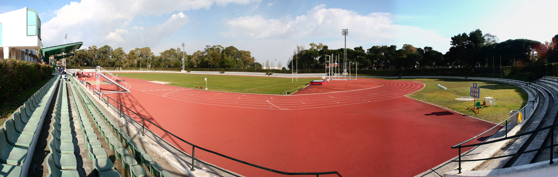 Estádio de Honra, central stadium of Estádio Universitário de Lisboa in University of Lisboa's campus